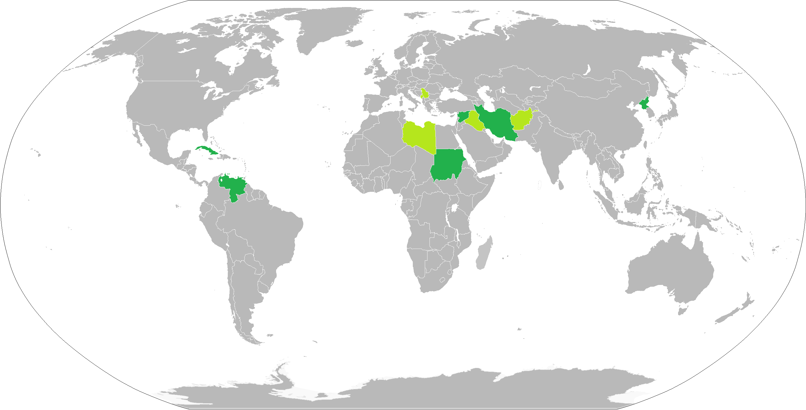 Map of Rogue States